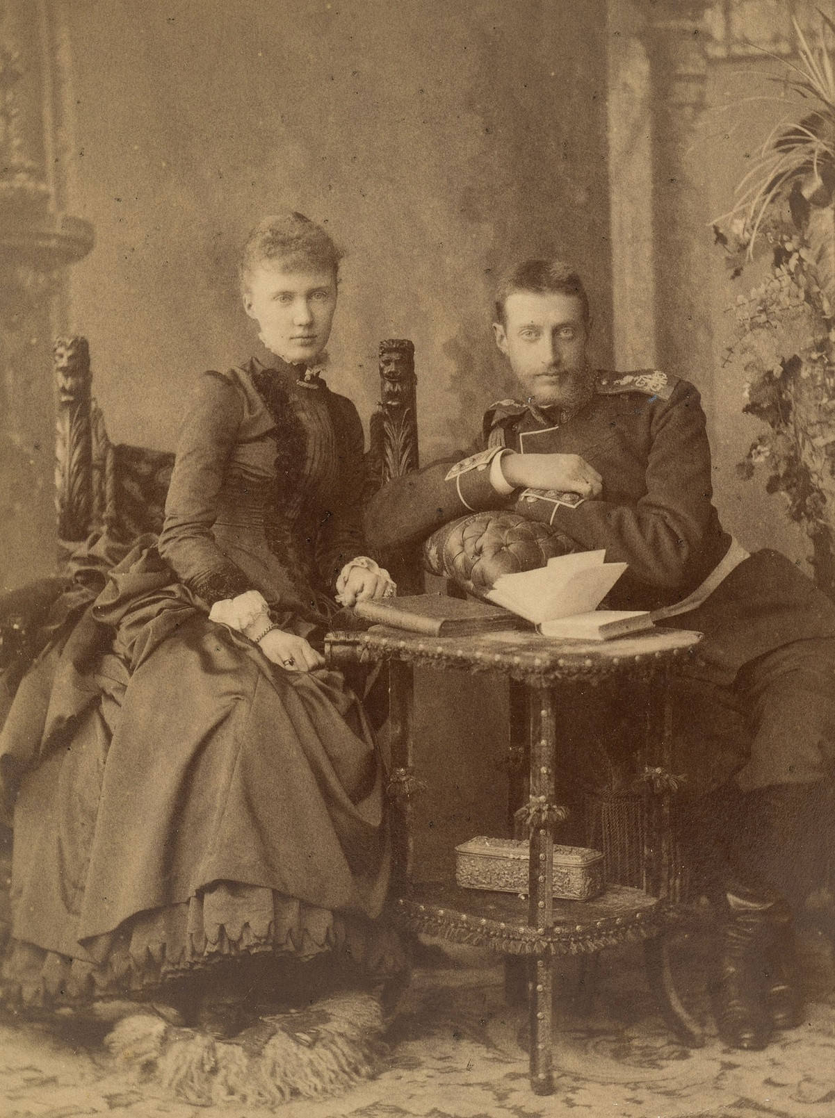 Constantin Constanovich and wife Elisaveta Mavrikieva